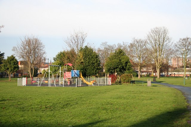 Grant Thorold Park Green oasis in residential Grimsby, the park was given to the Borough by the Grant Thorold family in 1911